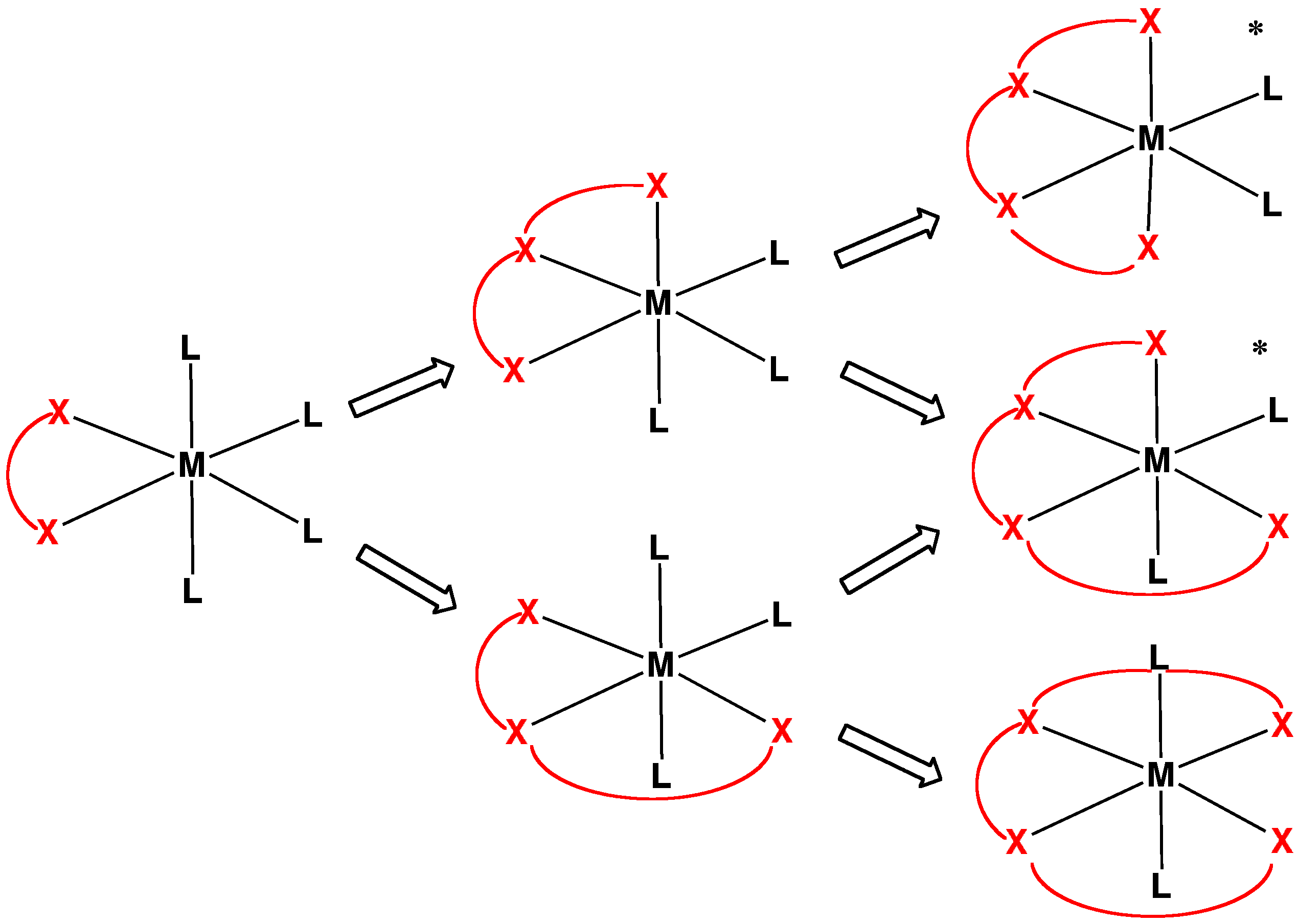 generic connectivity of certain chelating agents. * indicate that these complexes are chiral. X is the donor atom (typically N in an amine, P phosphine), M is the metal centre. The curved lines are links between the X's, typically -CH2CH2- or -CH2CH2CH2